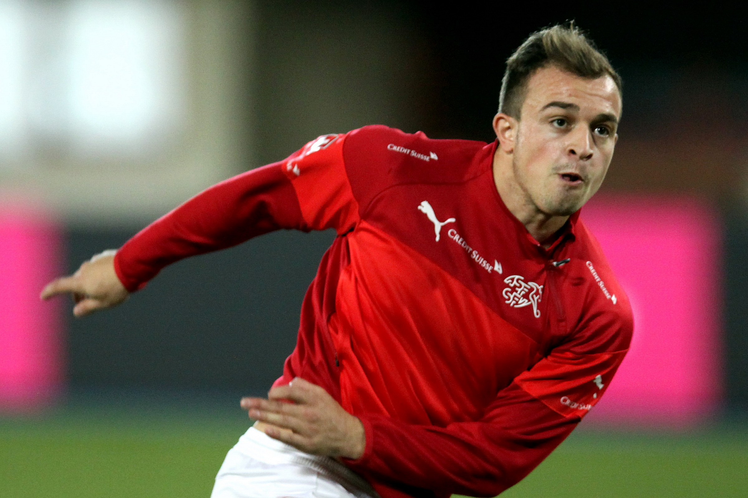 Friendly match – Austria (red shirts) vs. Switzerland (white shirts) 1-2 (1-2) – 2015-11-17 in Vienna, Ernst-Happel-Stadion – The photo shows Xherdan Shaqiri (Switzerland).